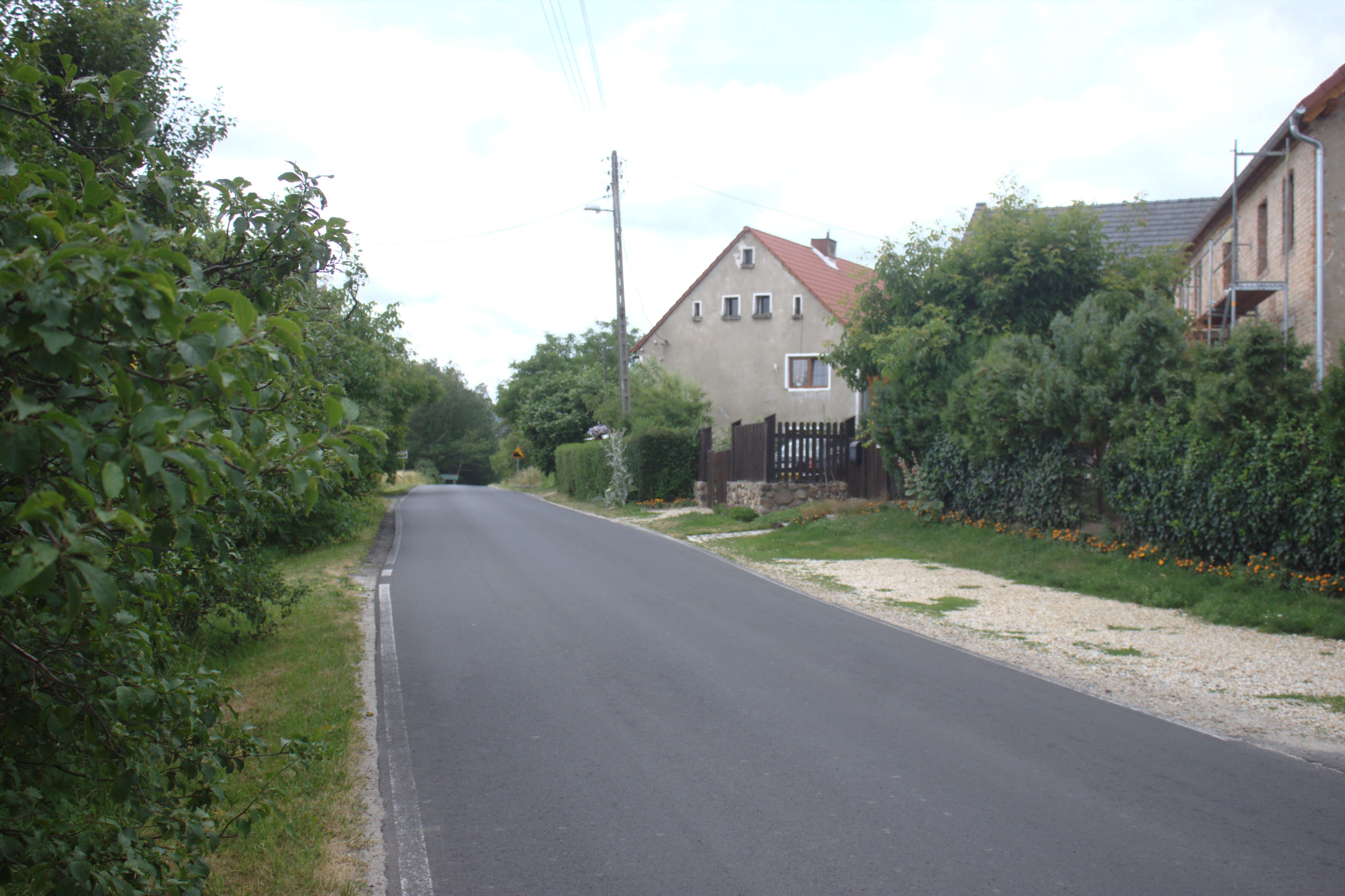 This photograph was created as a part of Wikiexpedition Lower Silesia, a project supported by Wikimedia Poland grant.